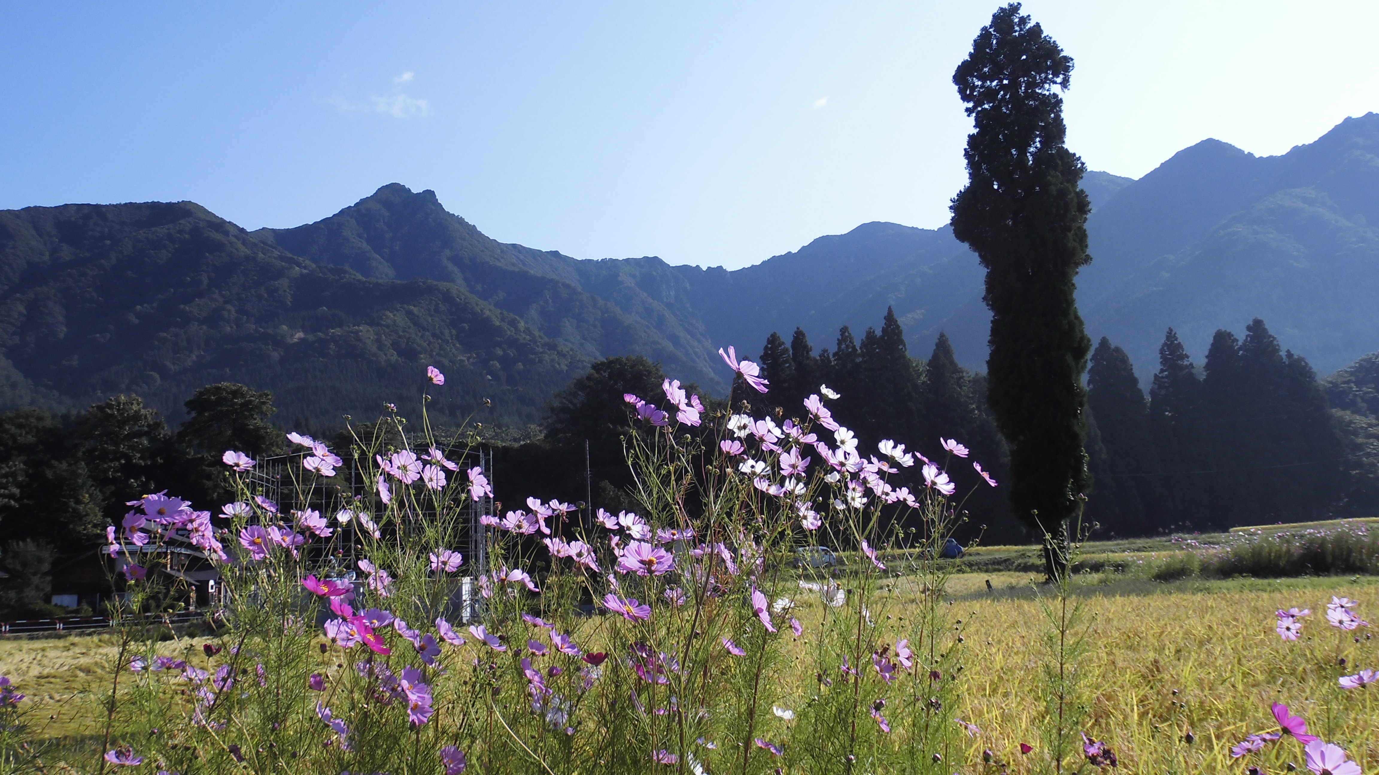 Mount Kinjo (Kinjo-san) in autumn